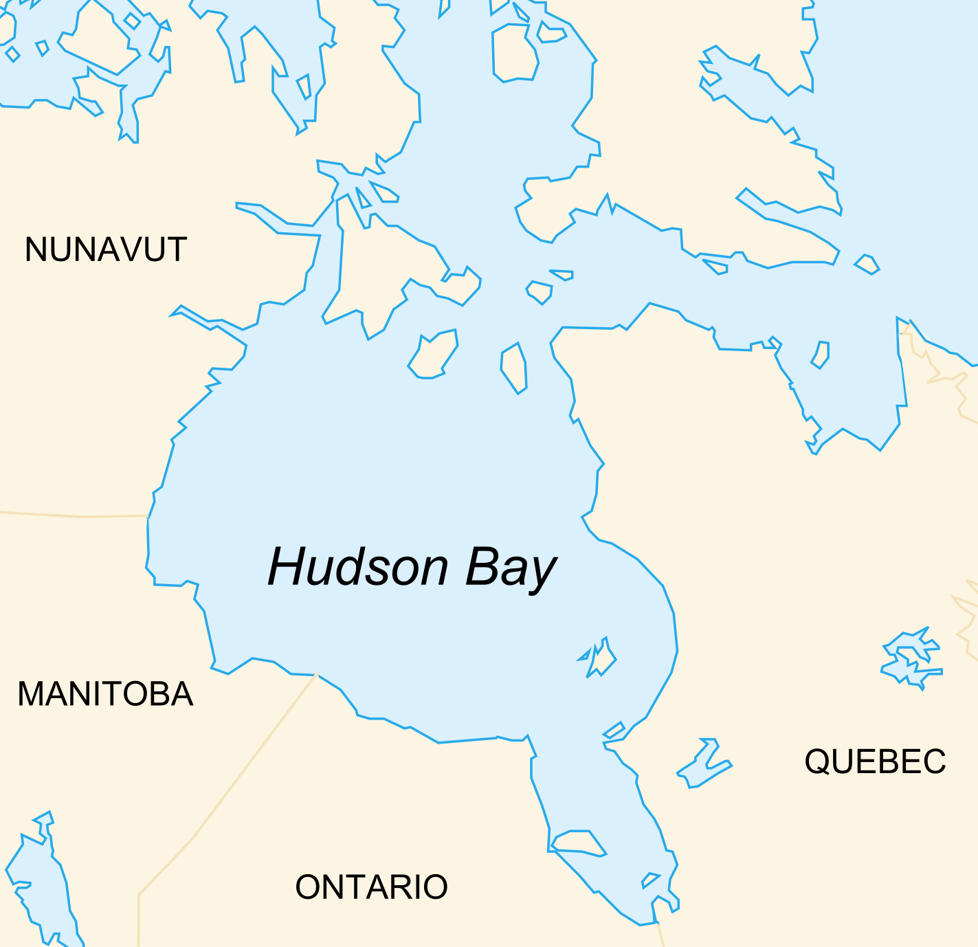 Hudson Bay with labels of bordering Canadian provinces.